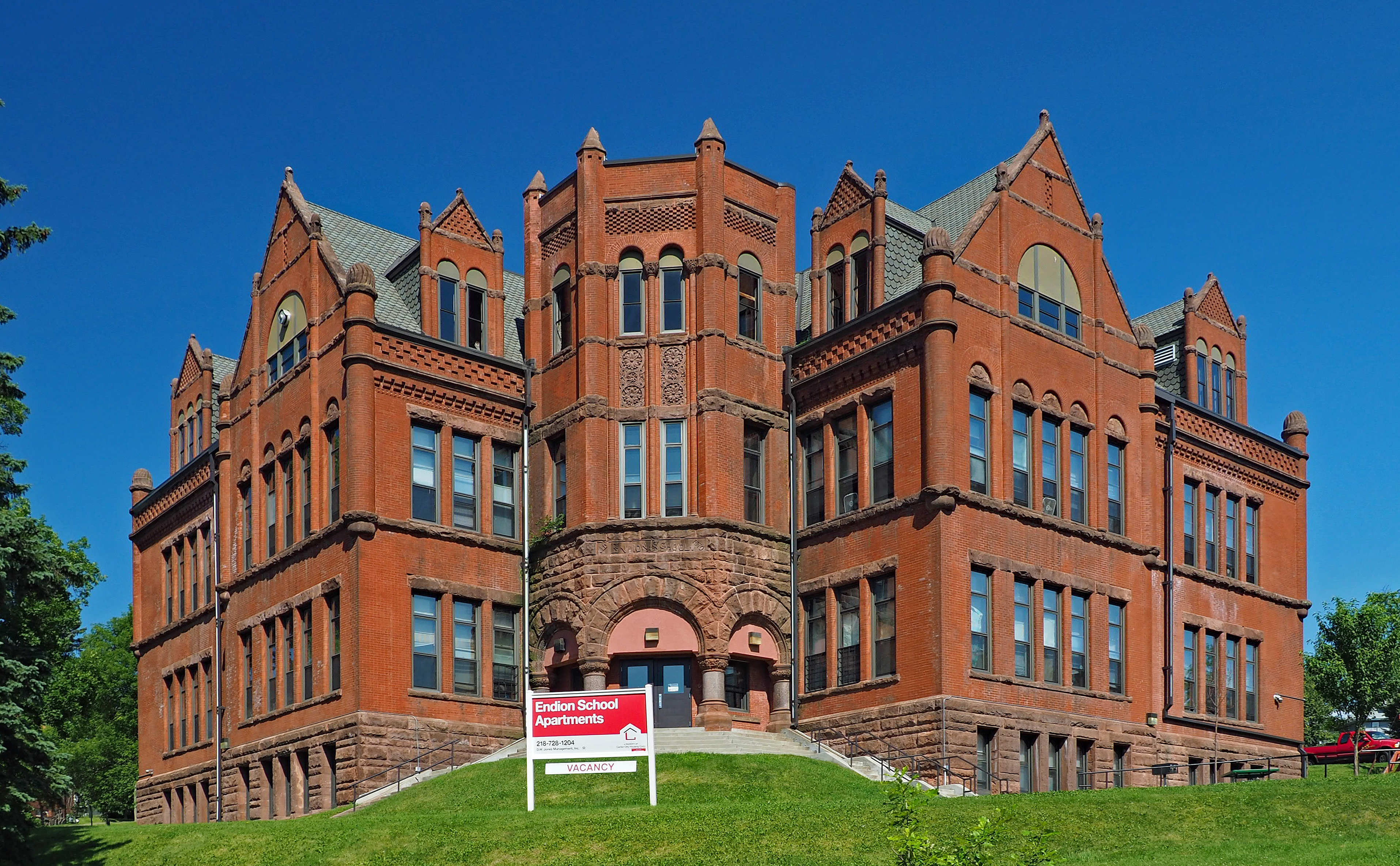 Endion School (now Endion School Apartments), 1801 E 1st St, Duluth, Minnesota, USA. Viewed from the southeast.